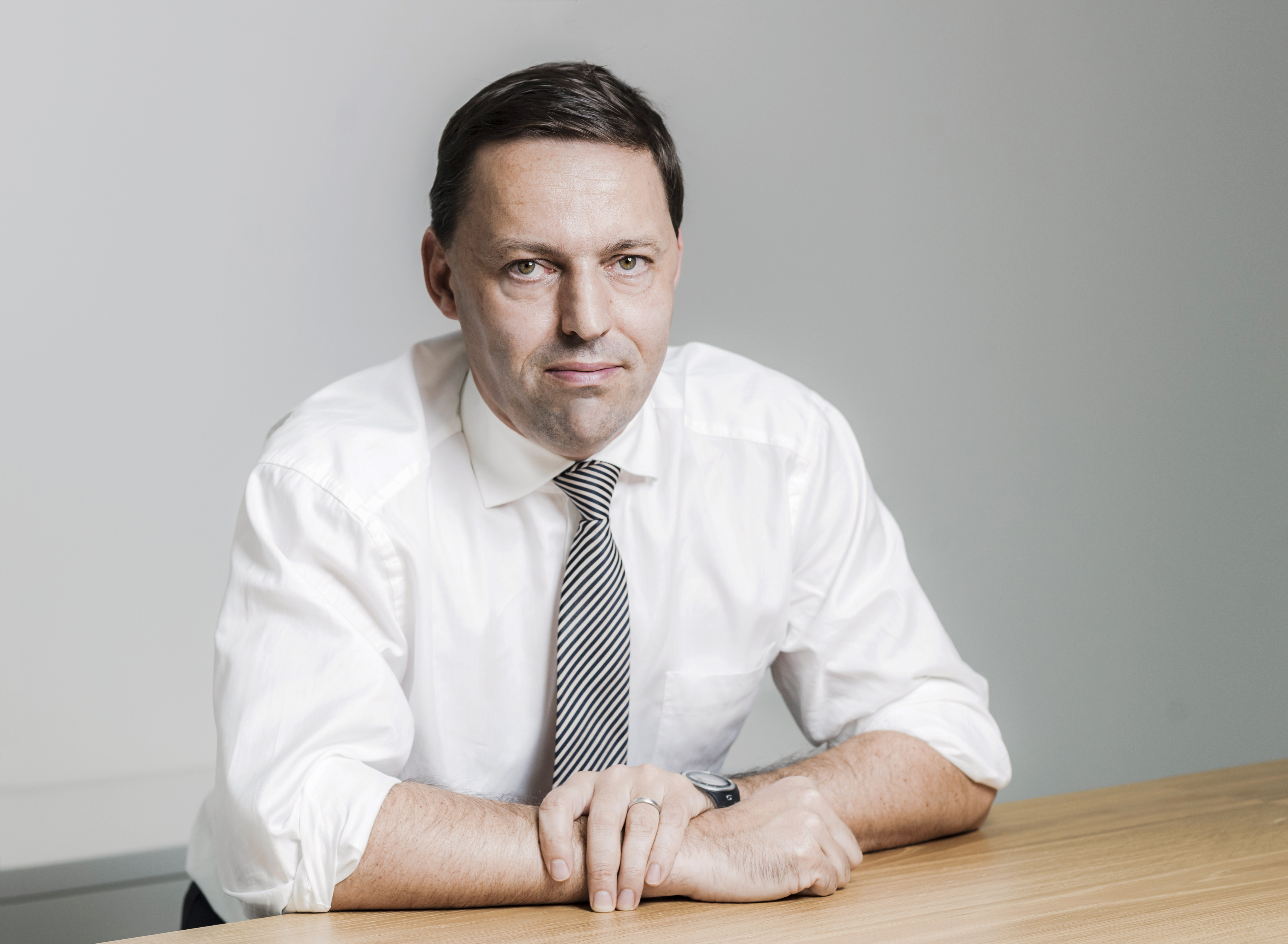 Stefan Schaible, Global Managing Partner of Roland Berger